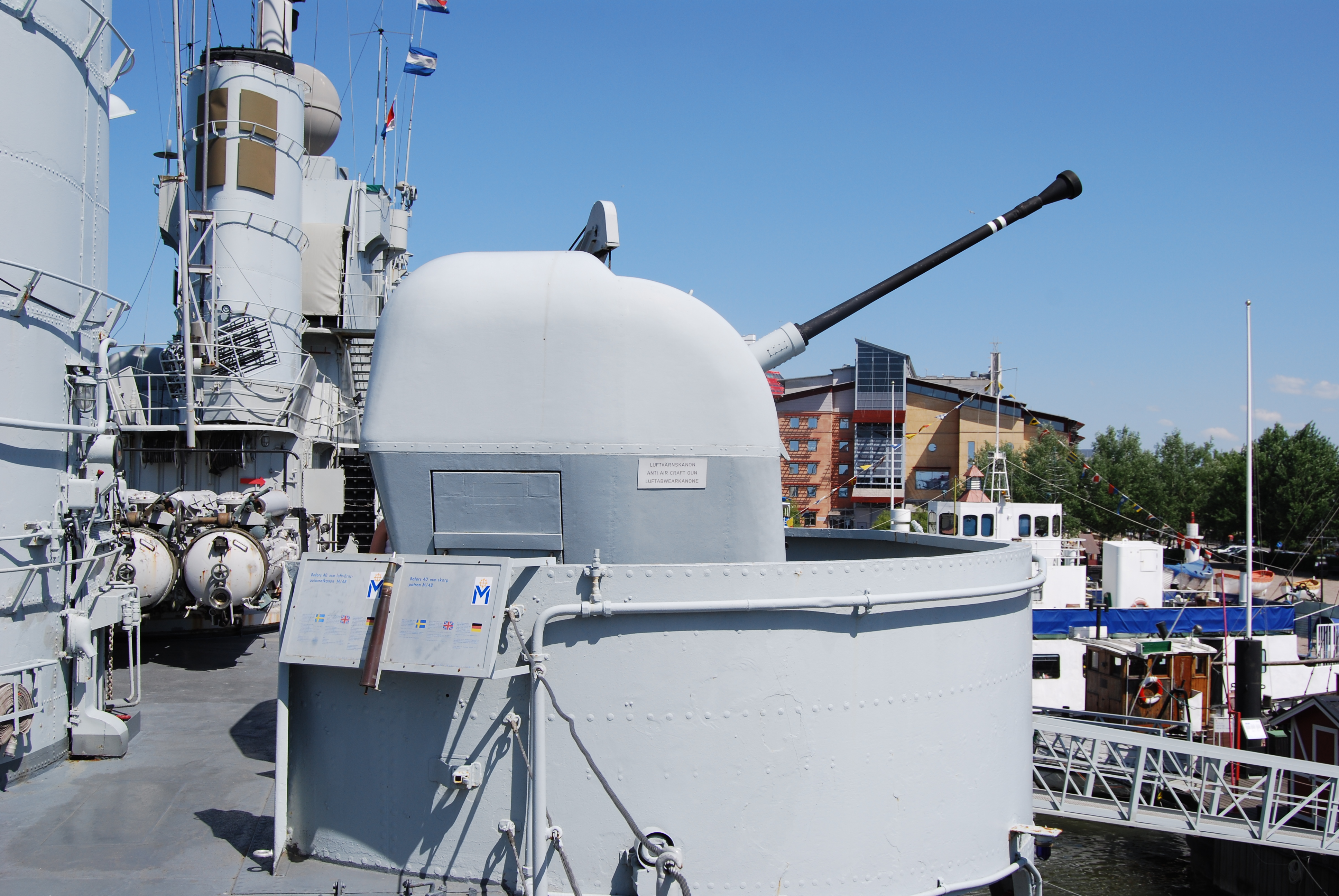 Starboard side anti aircraft gun on the Swedish destroyer HMS Småland.